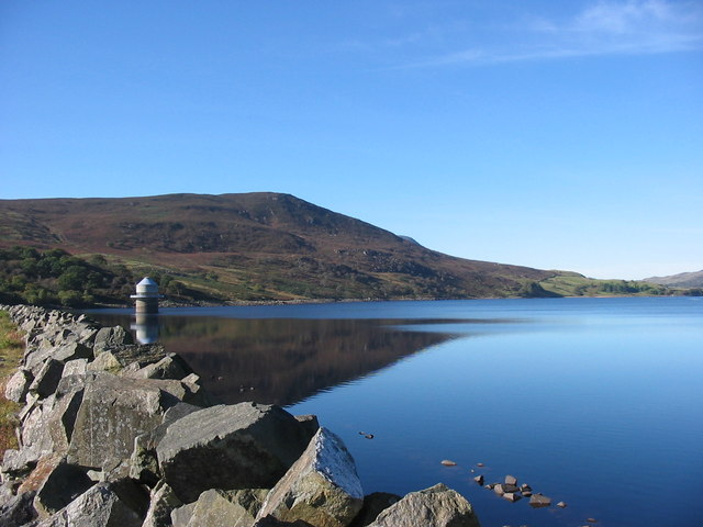 Llyn Celyn The dam blocking the River Tryweryn was built in the early 60s to supply the Liverpool area with water.This resulted in the flooding of the village Capel Celyn and the reservoir Llyn Celyn.